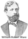 William Robert Ware